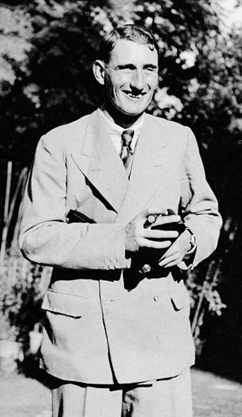 MCC England cricketer Bryan Valentine of Kent enjoying the sunshine in Calcutta during the tour of India and Ceylon, 28th December 1933.